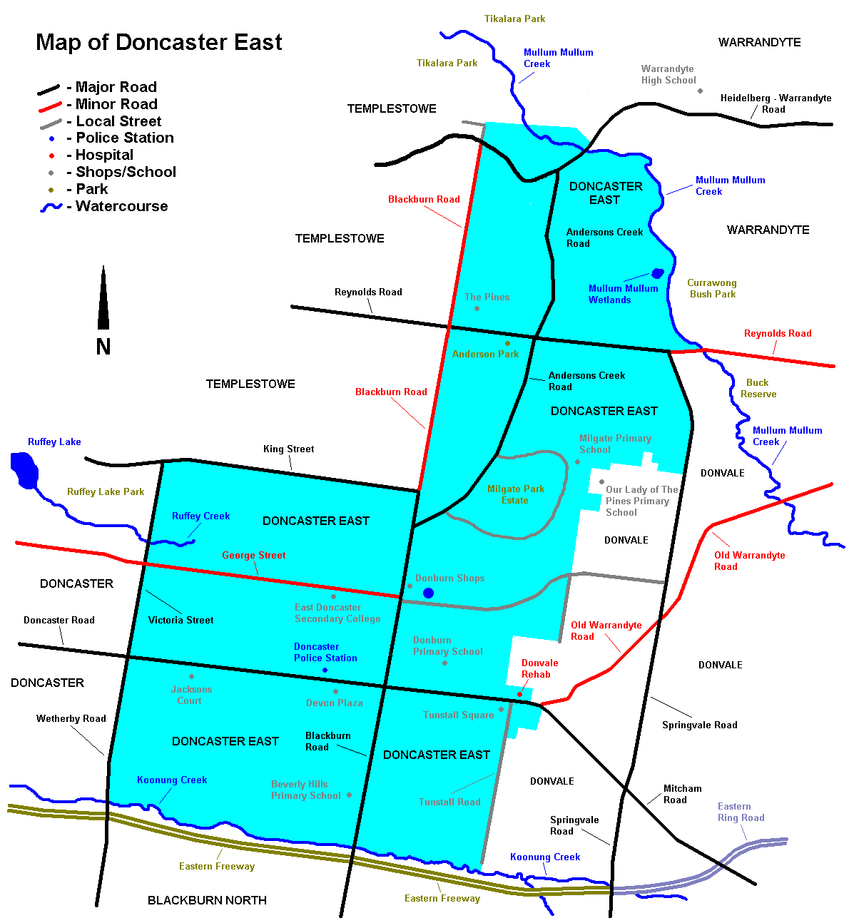 a simplified map of doncaster east, a suburb of Melbourne, Australia, showing basic features.